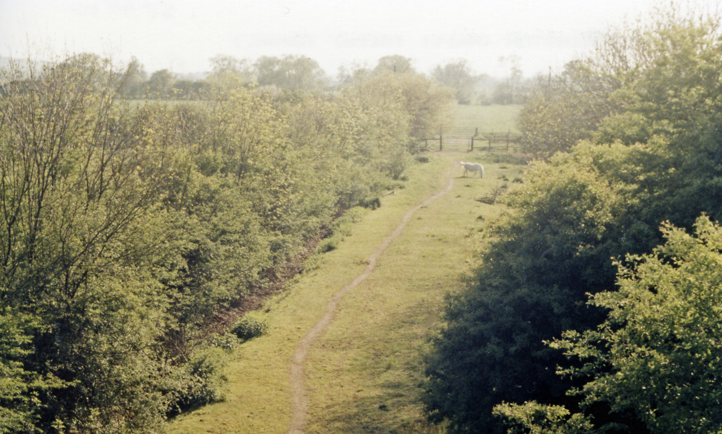 Site of Cassington Halt, 1987. View SW, towards Fairford: ex-GWR Oxford - Witney - Fairford branch. This Halt had served a useful purpose in wartime and survived until closure of the line from 18/6/62.